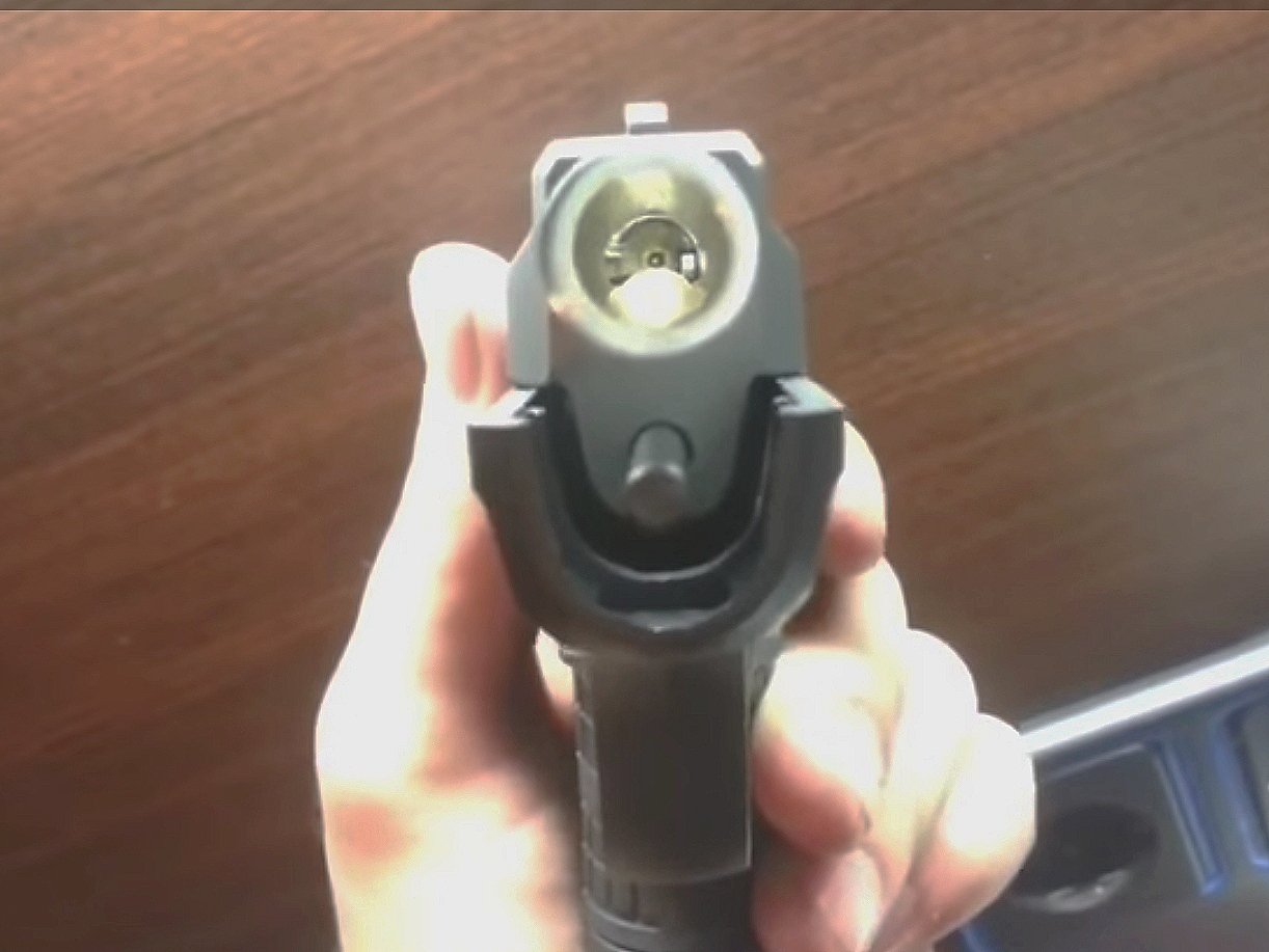 Smooth bareel